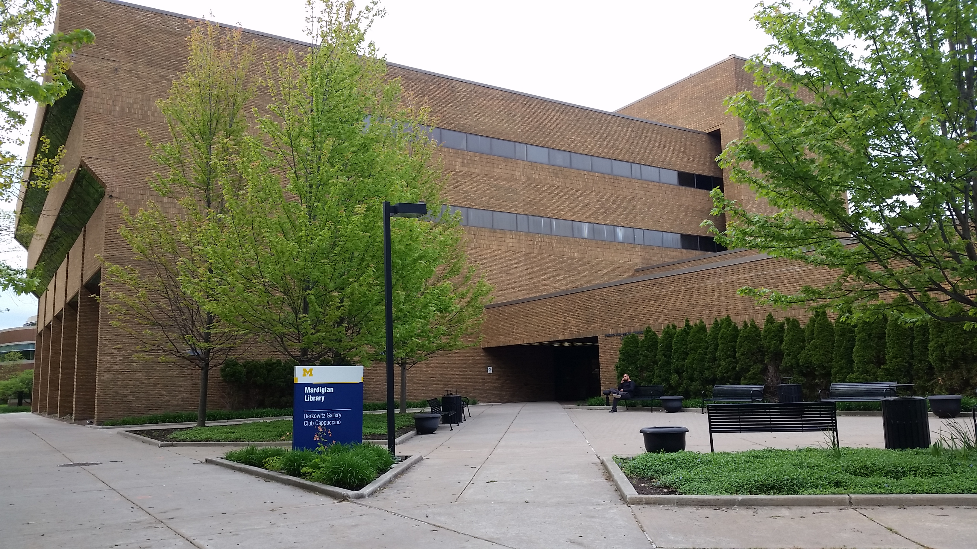 Mardigian Library, University of Michigan-Dearborn